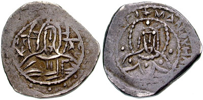 Manuel II Palaeologus. 1391-1423. AR Half Stavraton (3.74 gm). Constantinople imperial mint C-F, facing bust of Christ MANOUÊL BACILEUS O PALEOLOGOS / F-C (Manuel, emperor, the Paleologos), facing bust of Manuel. DOC V 1414ff; Bendall 20; SB 2551. Coin from CNG coins, through Wildwinds.